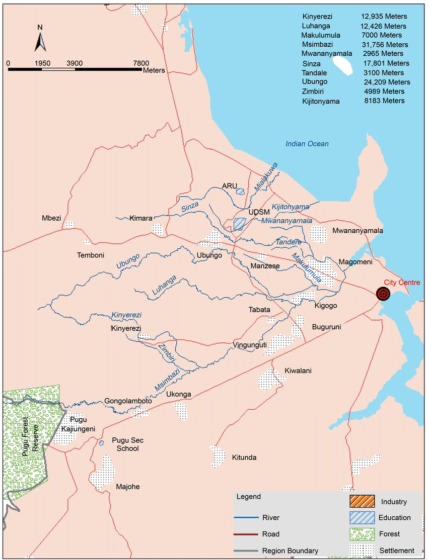 The basin of Msimbazi River and its tributaries in Dar es Salaam, Tanzania